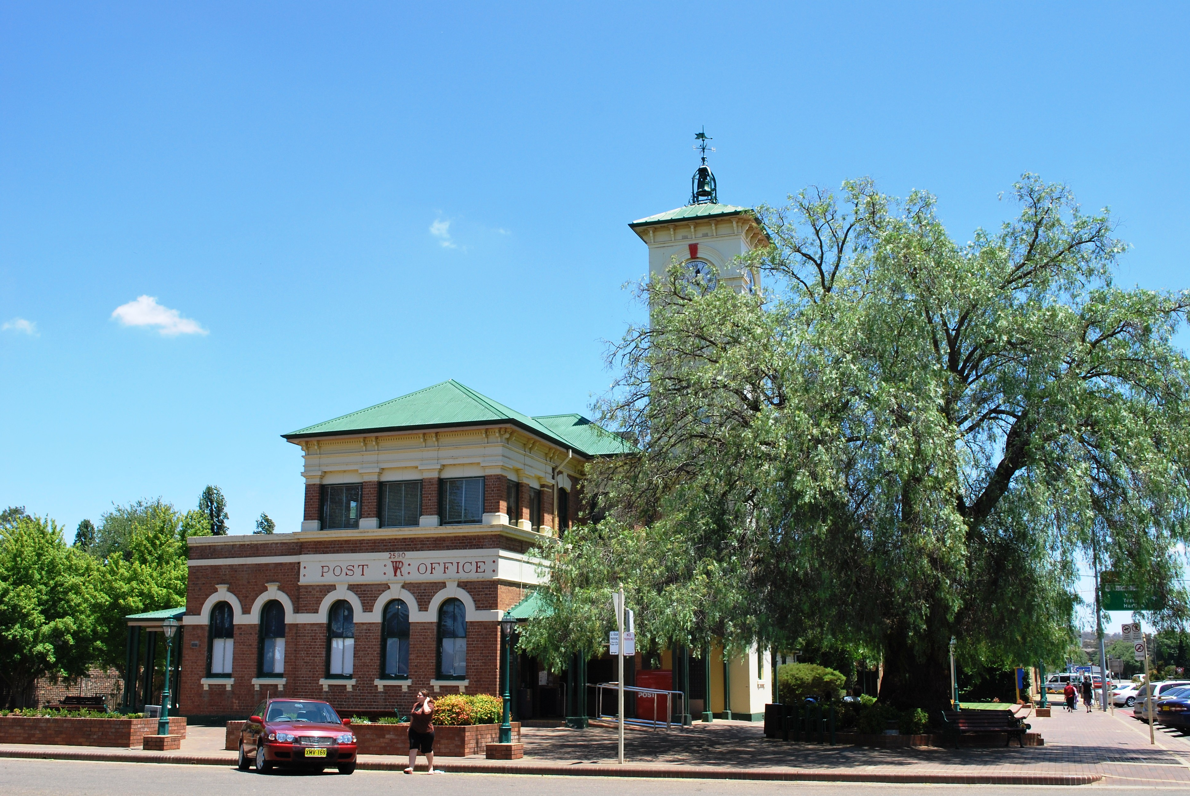 Post office at Cootamundra, New South Wales